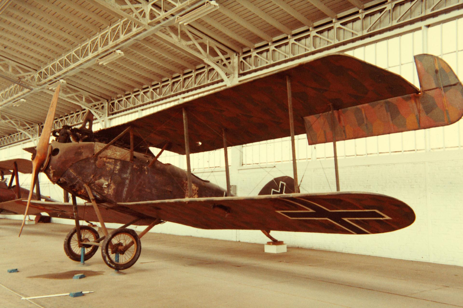 Halberstadt C.V in museum